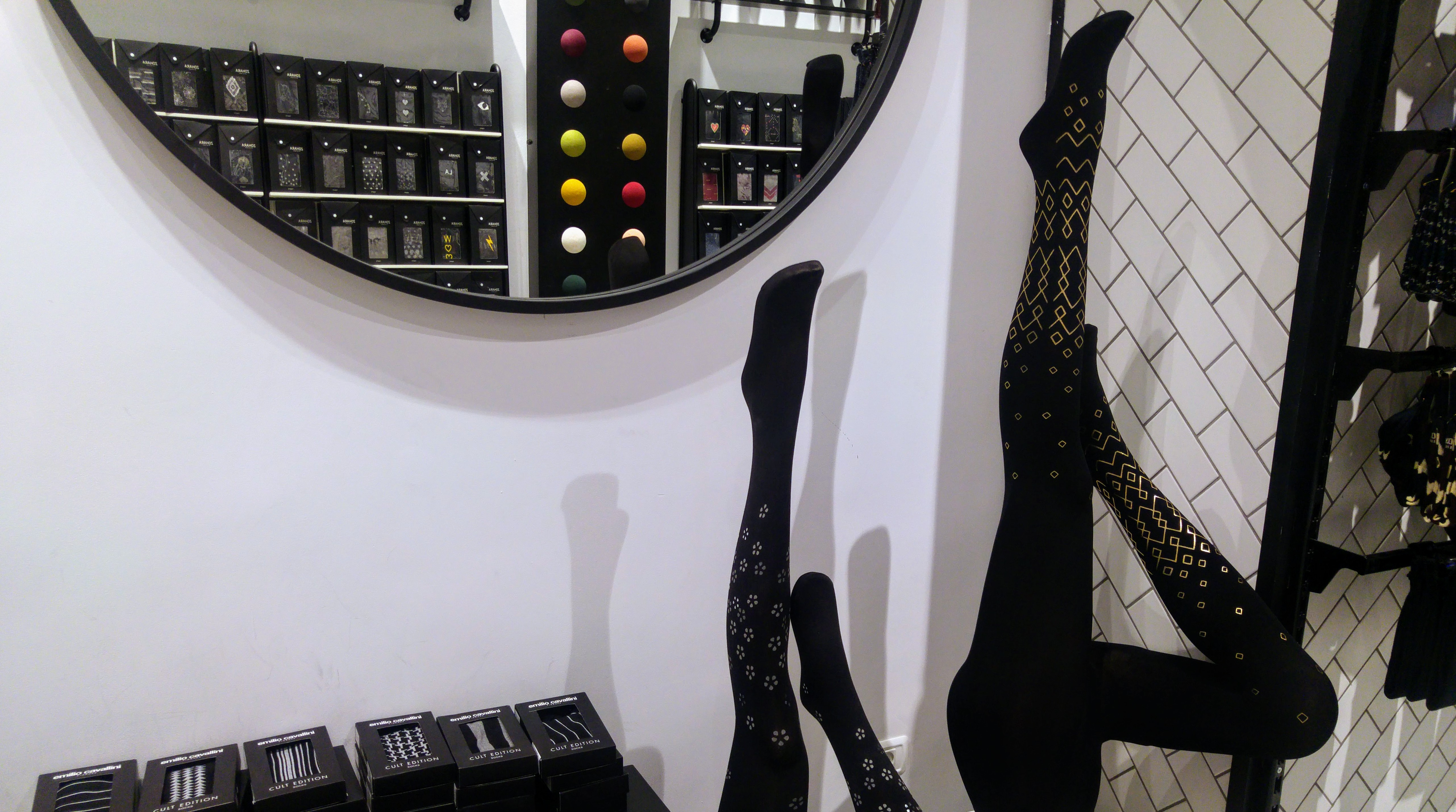 Various samples of Stockings at a mall in Tel Aviv